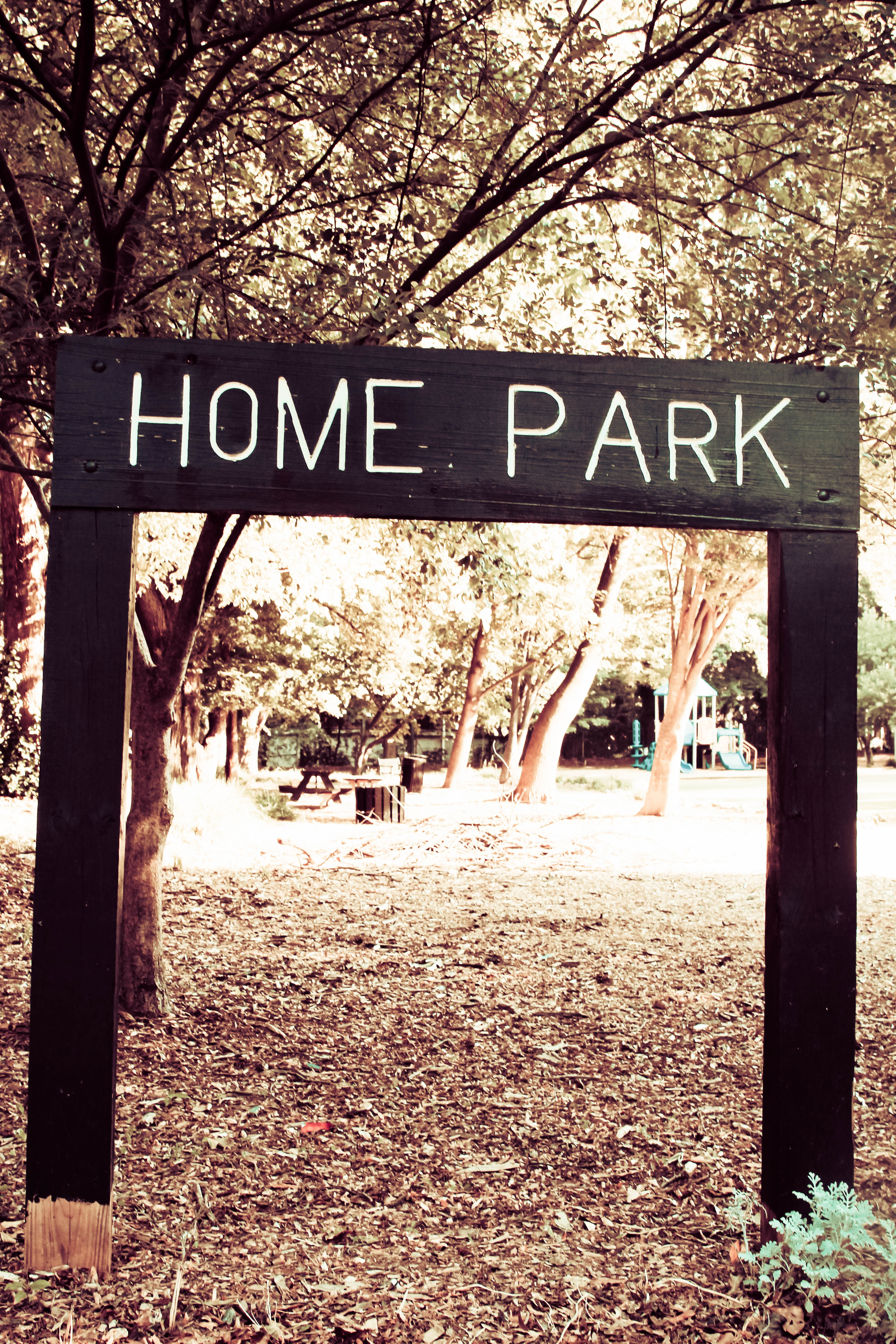 The entrance to the Home Park at Home Park in Atlanta, Georgia.